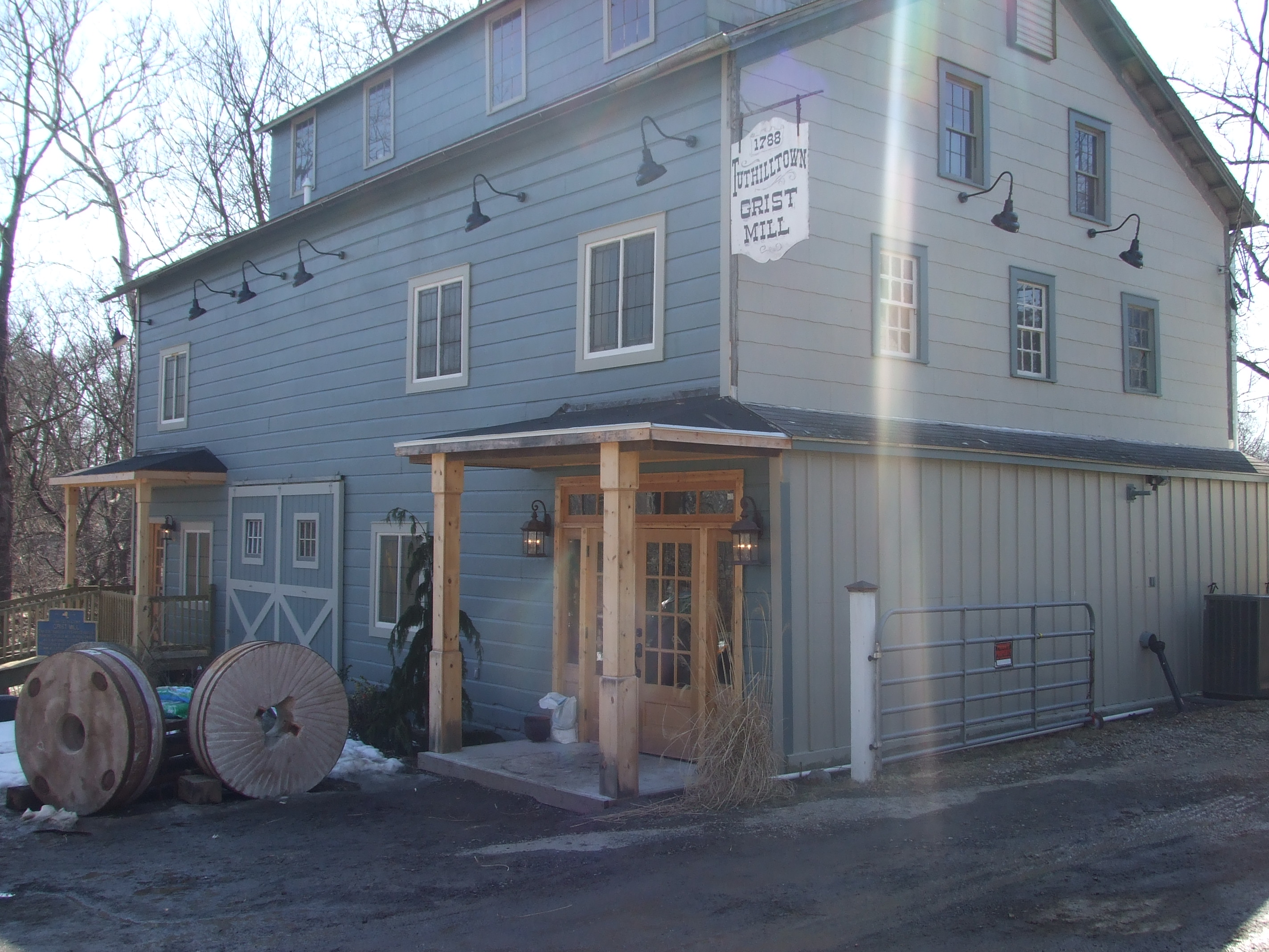 Tuthilltown Gristmill becoming Tuthillhouse at the Mill Restaurant